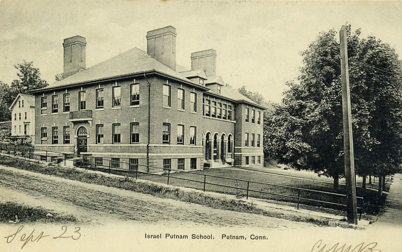 Postcard picture: Israel Putnam Grammar School, postmarked 1907